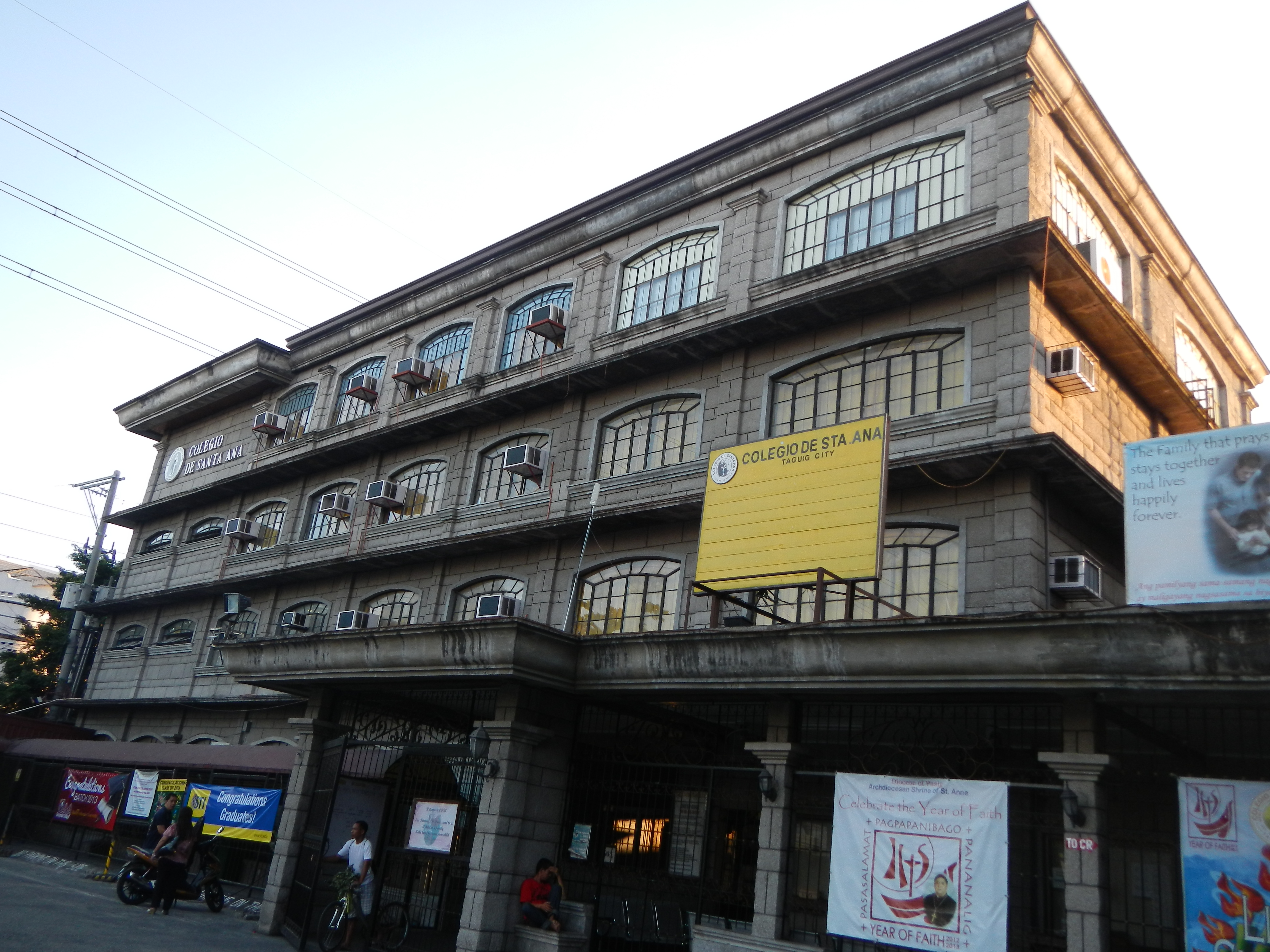 Colegio de Santa Ana[1]is a Private, Catholic (Parochial) institution located in Liwayway Street, Sta. Ana, Taguig City. Founded in 1980 by Rt. Rev. Msgr. Augurio I. Juta, CDSA offers Christian education.[2]